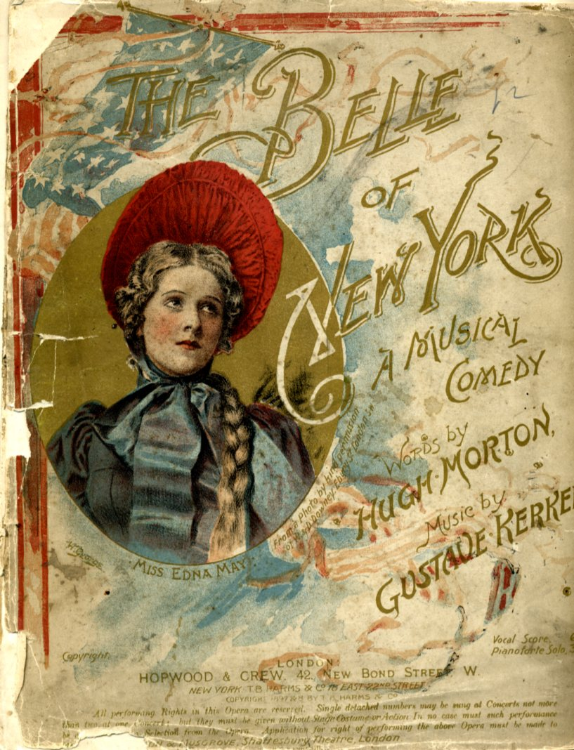 From a period vocal score in my possession.